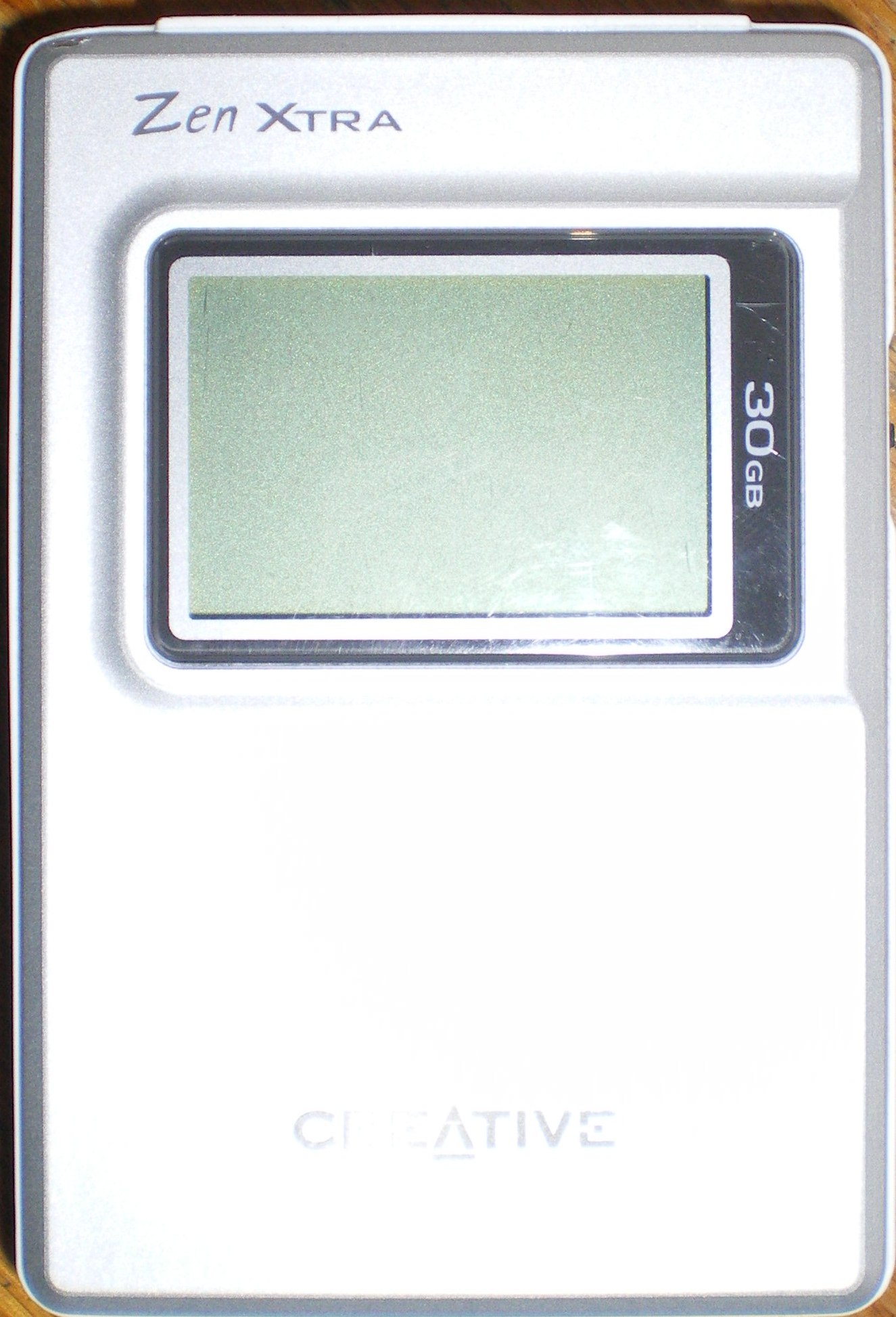 My zenxtra